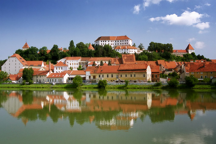 The downtown of Ptuj in Slovenia. Picture taken on August 2005. (c) 2005 by Marcin Gierszner